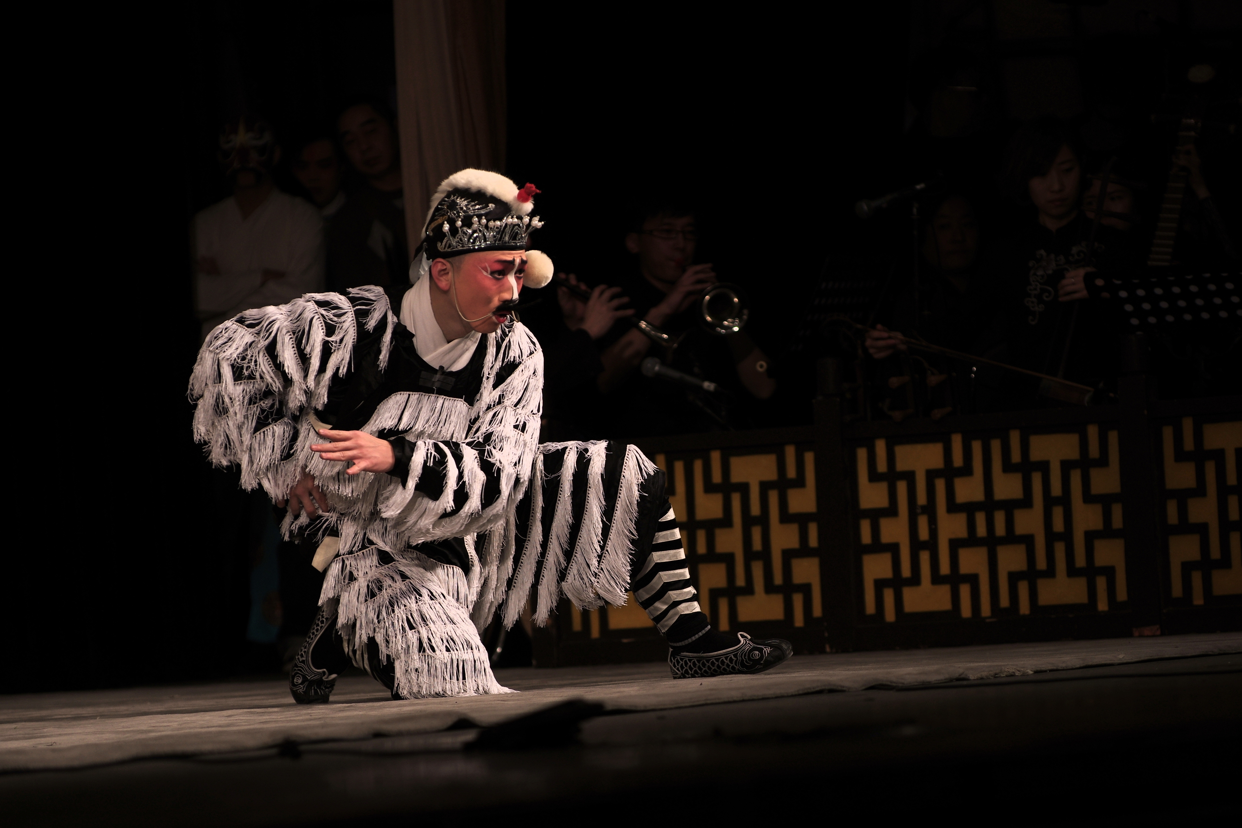 A Peking opera actor portraying Jiang Ping (The Seven Heroes and Five Gallants)